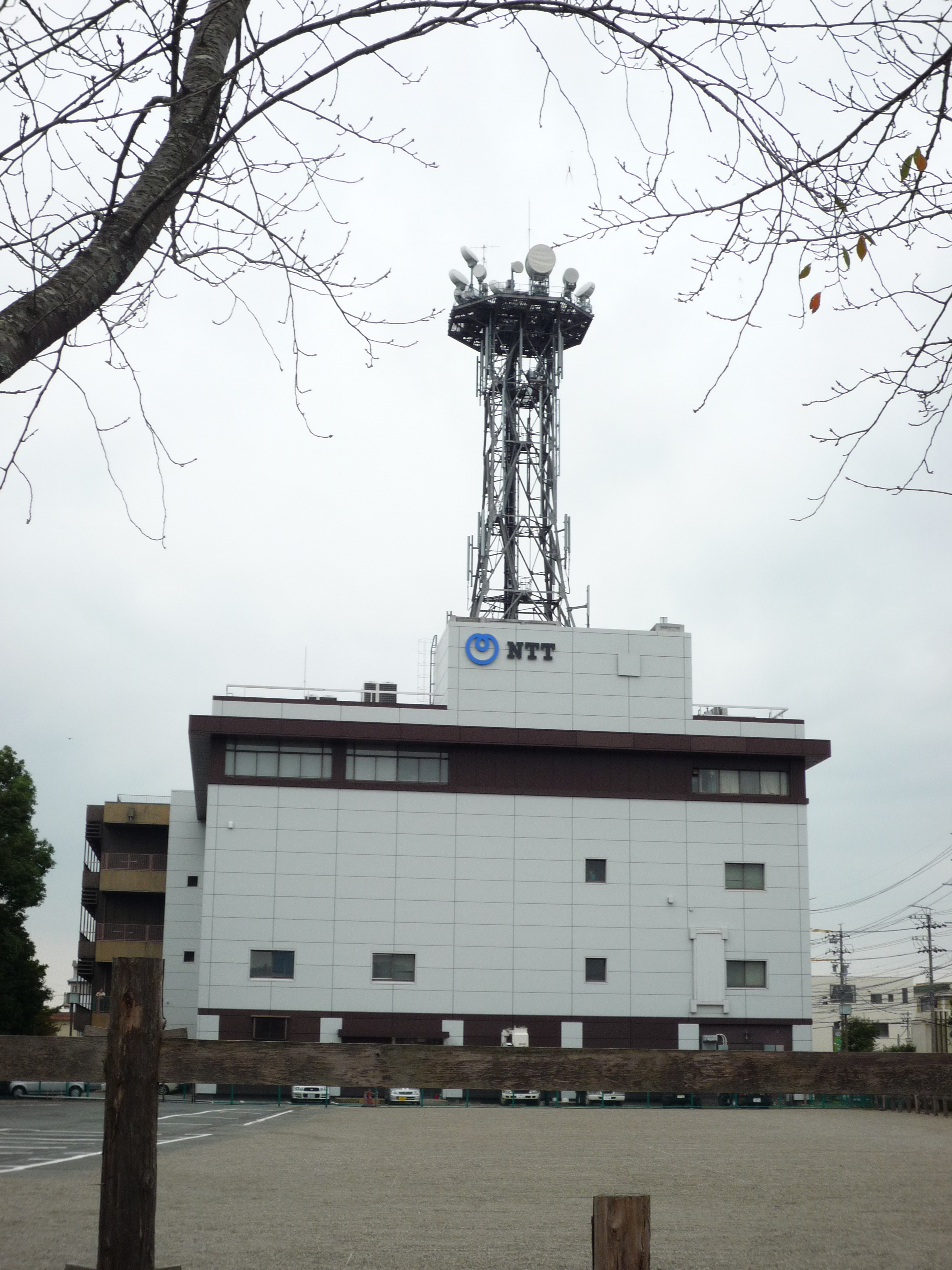 NTT West telecom switching facilities near Toyouke Daijingu of Ise Grand Shrine. 中文（台灣）: 位於伊勢神宮外宮旁的NTT西日本電信設施.